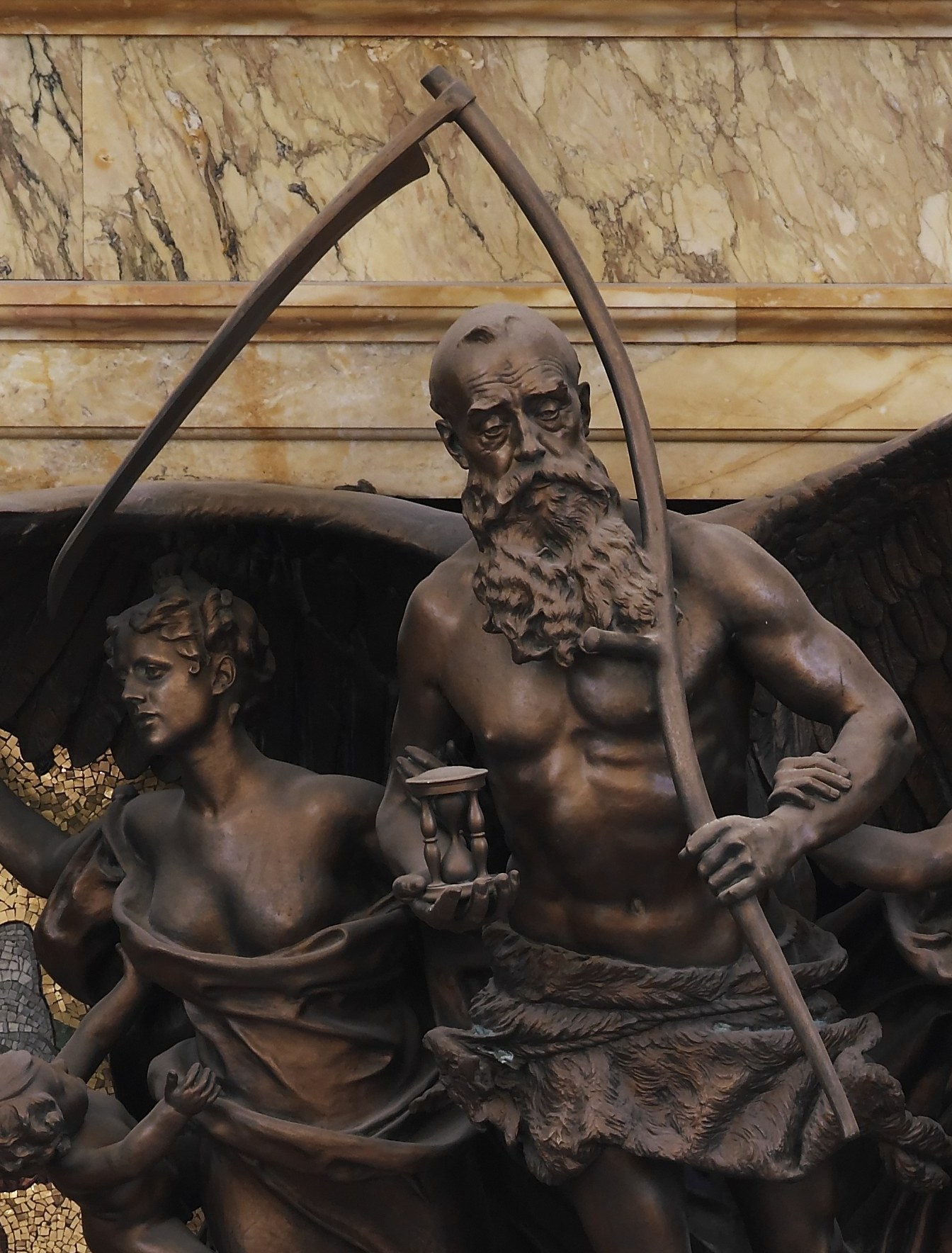 Detail from Image:LoC-Rotunda-Clock.jpeg.